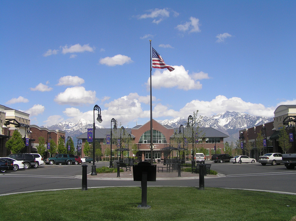 South Jordan, Utah City Hall at Towne Center